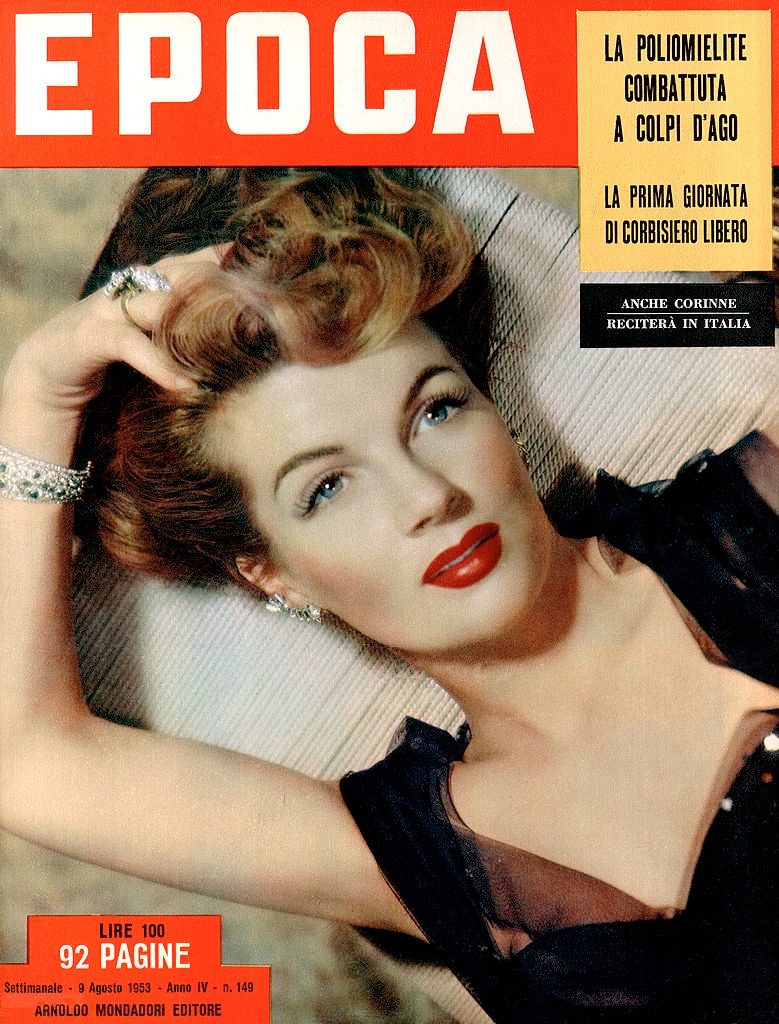 The cover of the Italian weekly magazine Epoca showing the French actress Corinne Calvet. 9th August 1953